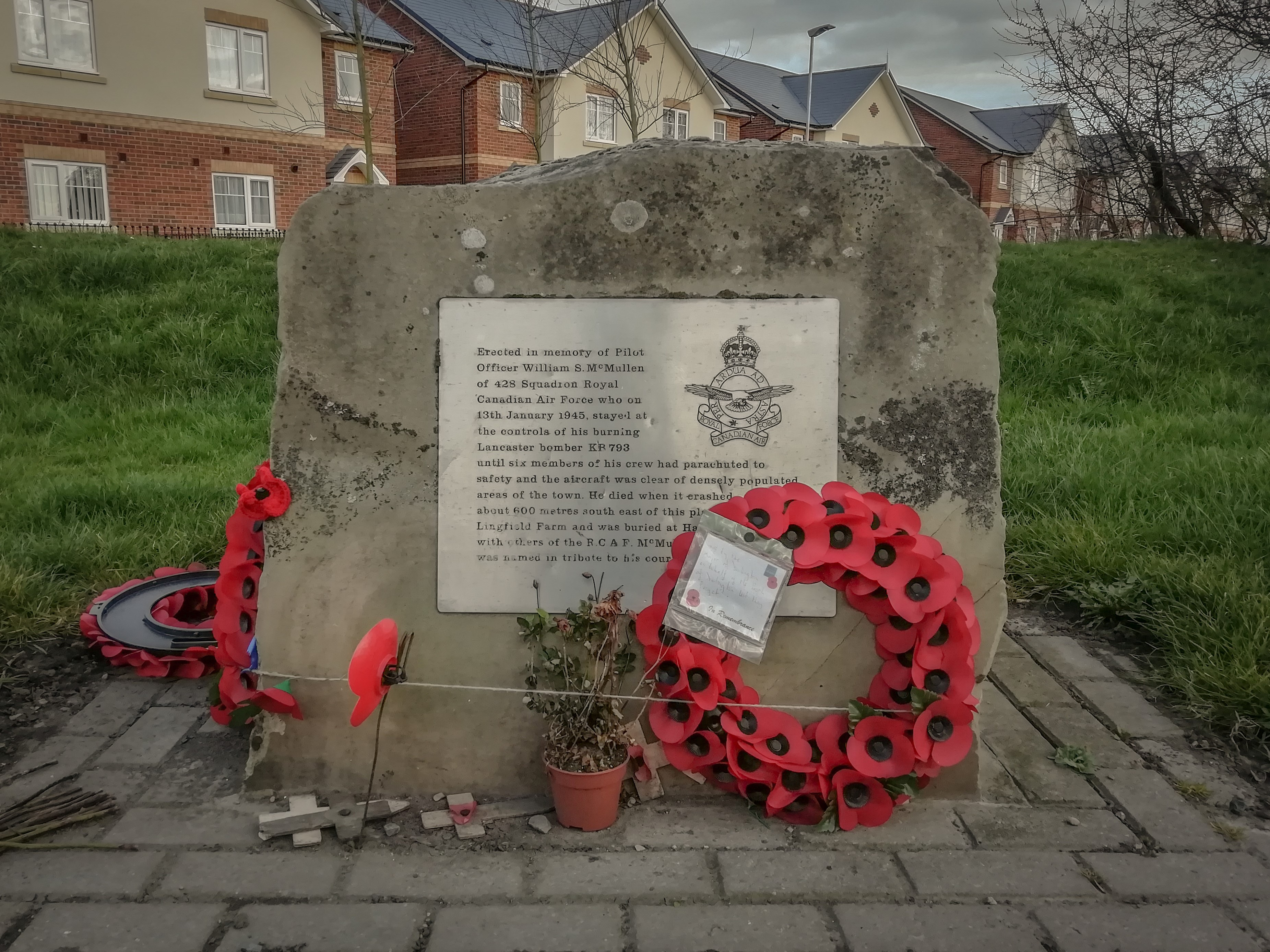 The memorial to Pilot Officer William Stuart McMullen on McMullen Road in Darlington, County Durham, UK.